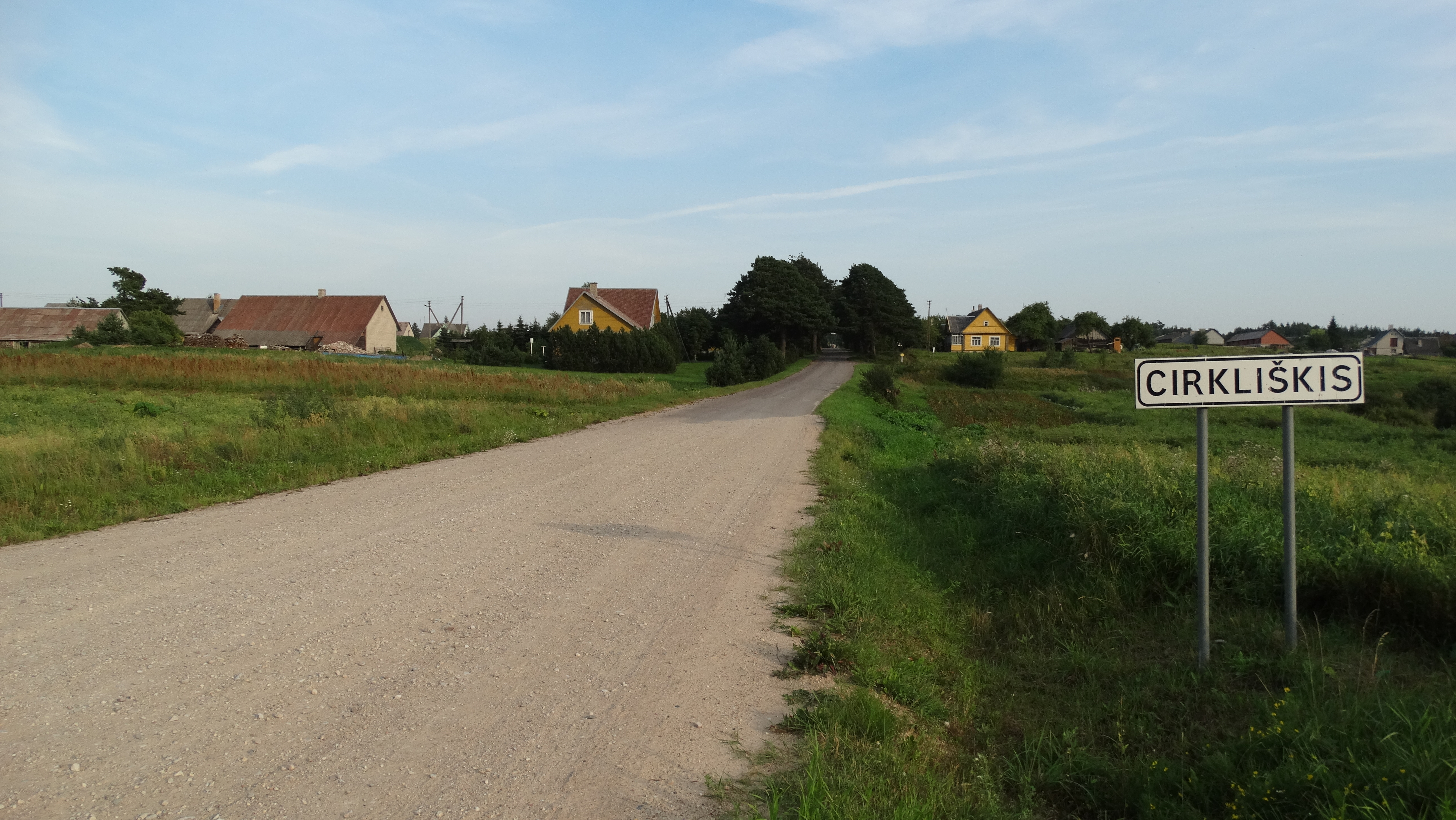 Cirkliškis, Švenčionys District, Lithuania